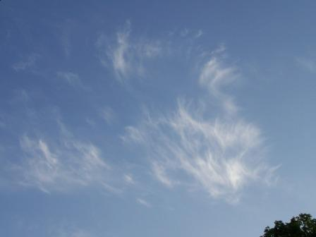 Cirrus uncinus